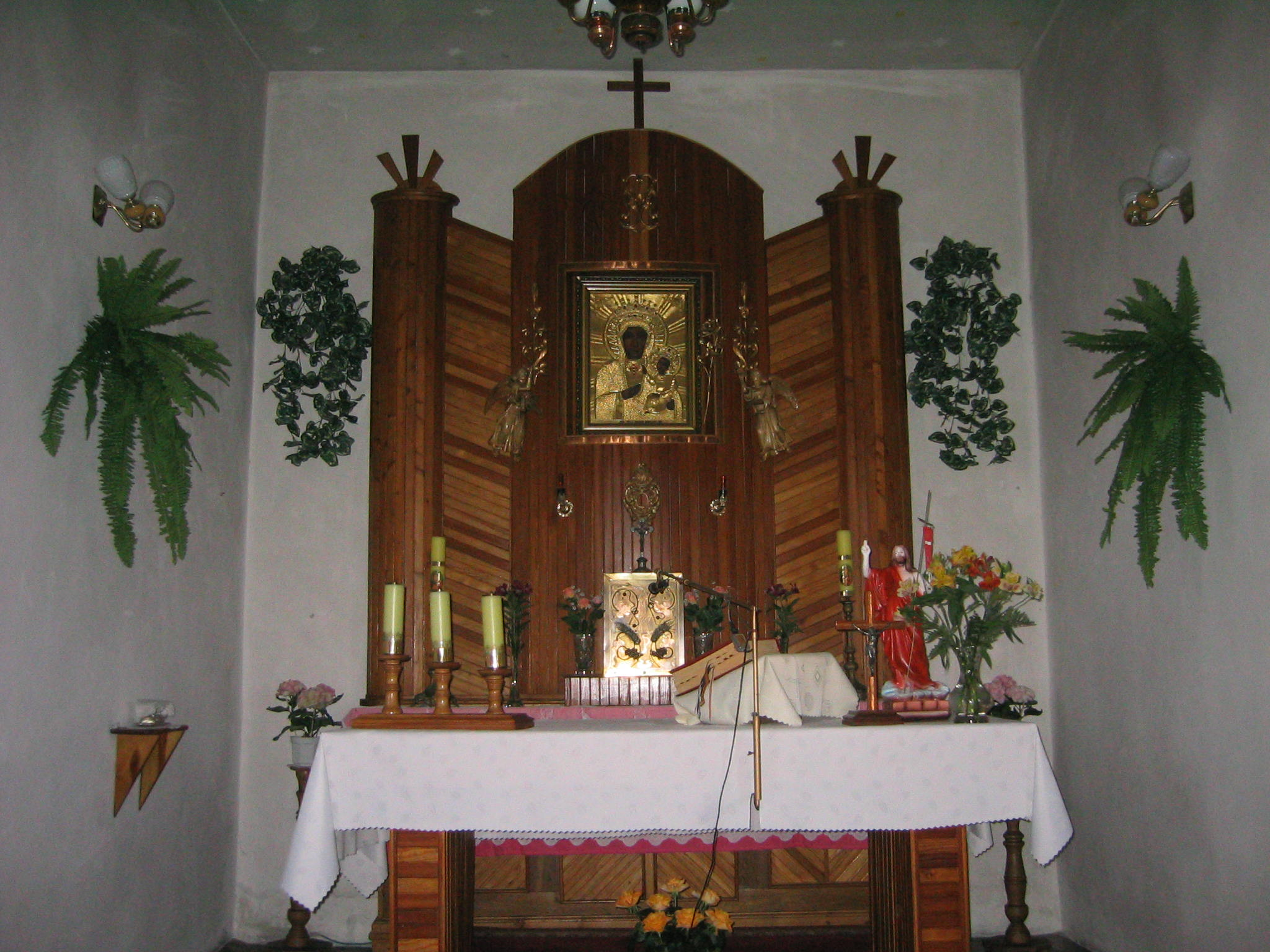 Altar of Church of the Black Madonna of Częstochowa (Głogówko, Lower Silesian Voivodeship)